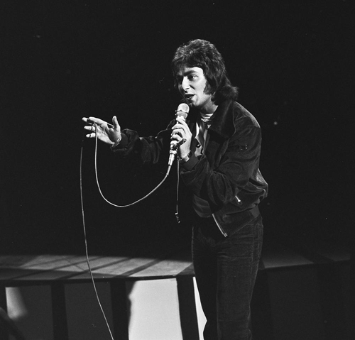 Barry Blue, rop/rock program 'Popzien' on Dutch television